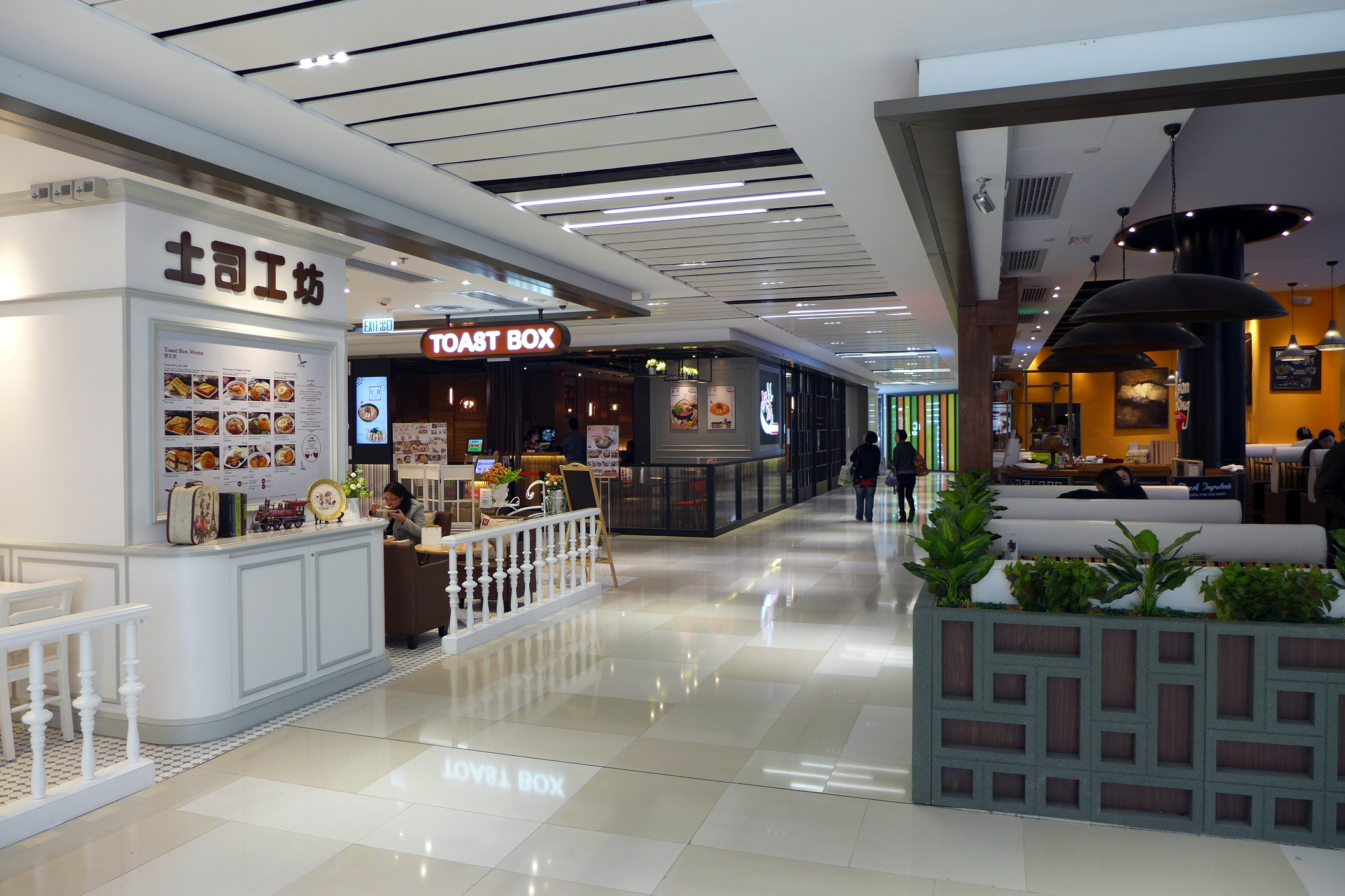 City Landmark 1 Level 3 F&B